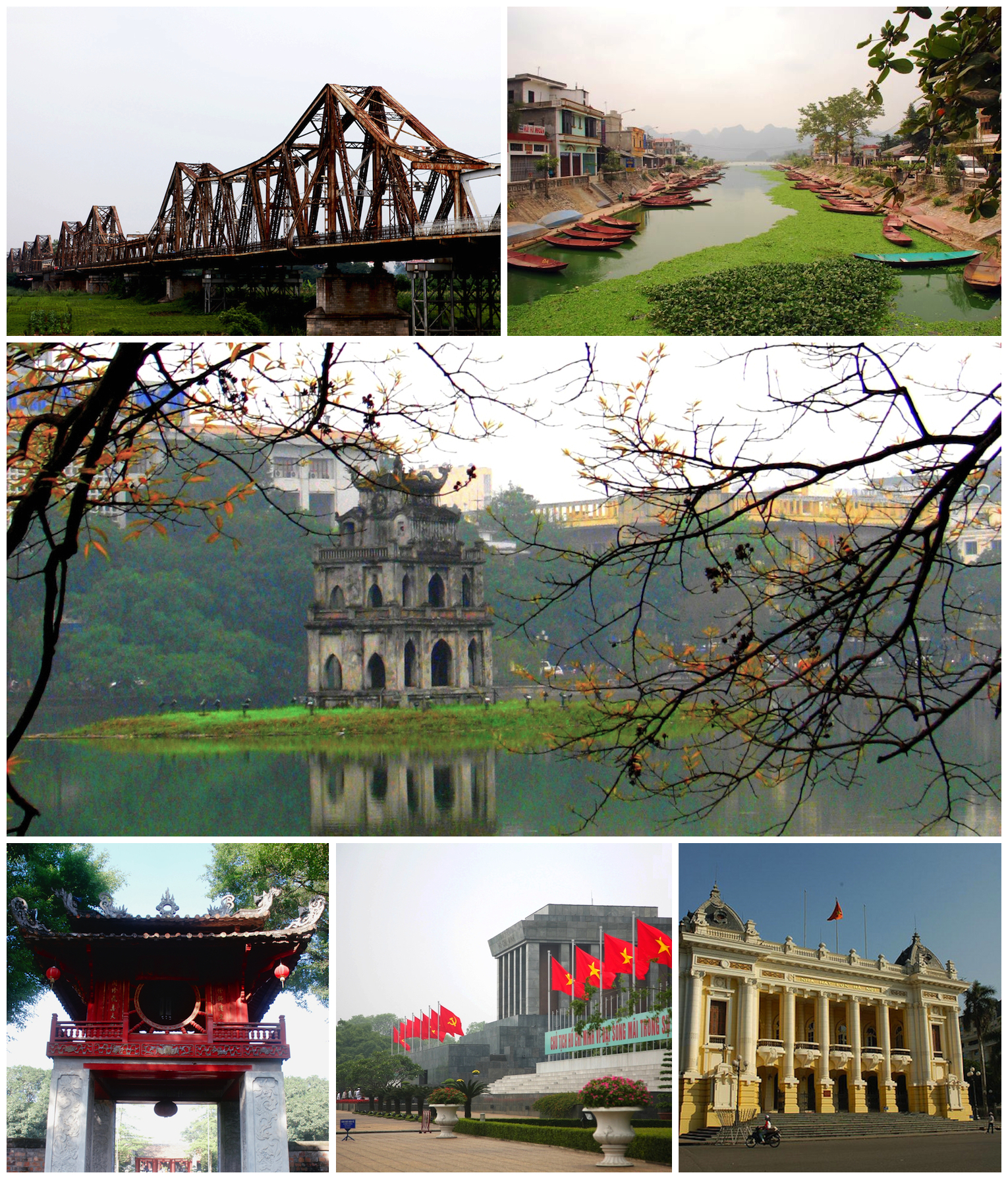 Combined images of landmarks in Hanoi.